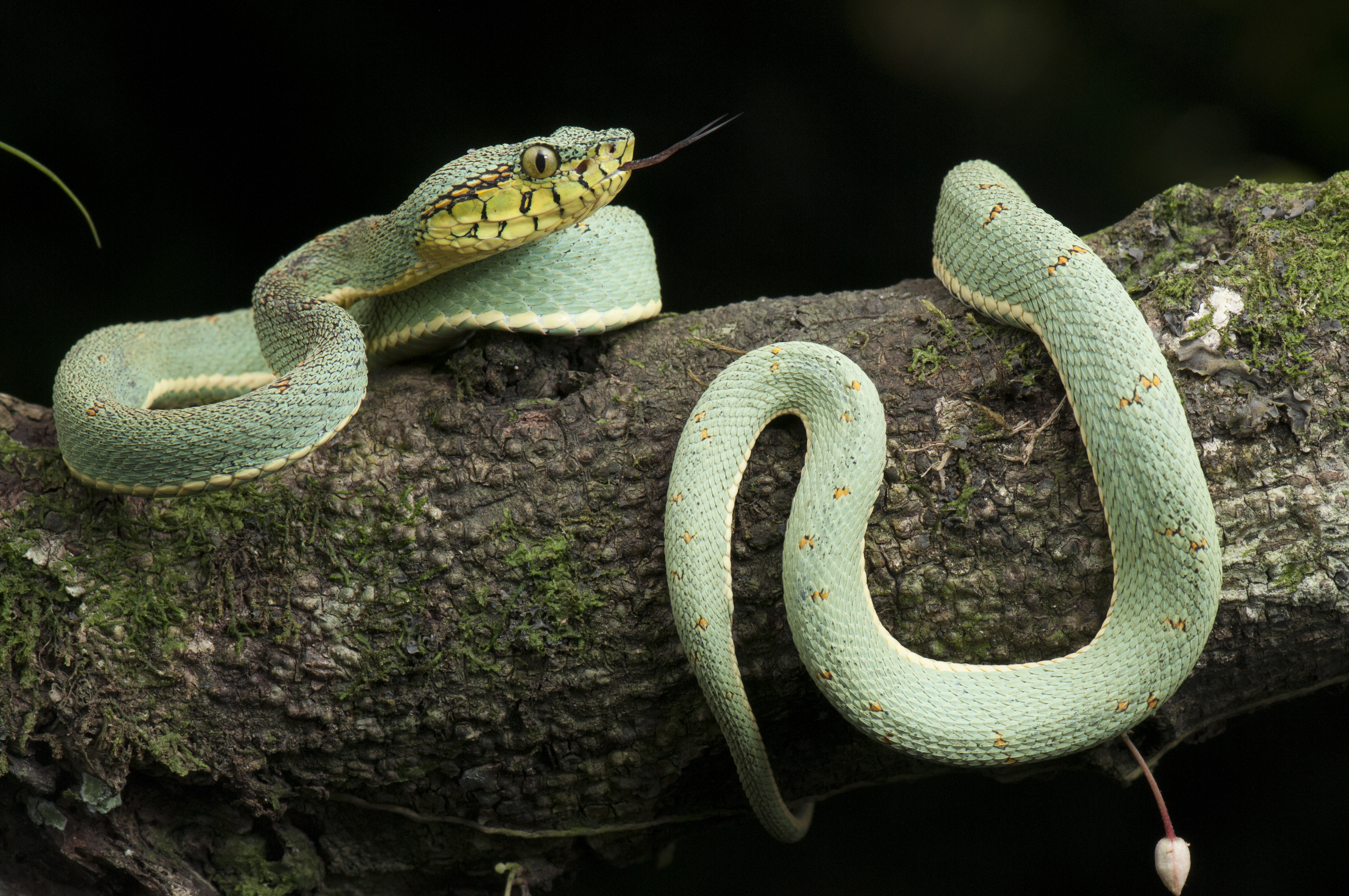 Bothrops bilineatus, also known as jararaca-verde, this species possesses the solenóglifa dentition, that is to say with large and movable fangs.Photo taken at Atlantic Forest preservation area in Ilheus Bahia